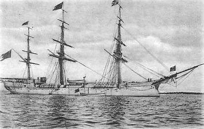 A postcard of the Swedish steam corvette HMS Saga, in Karlskrona, circa 1900.